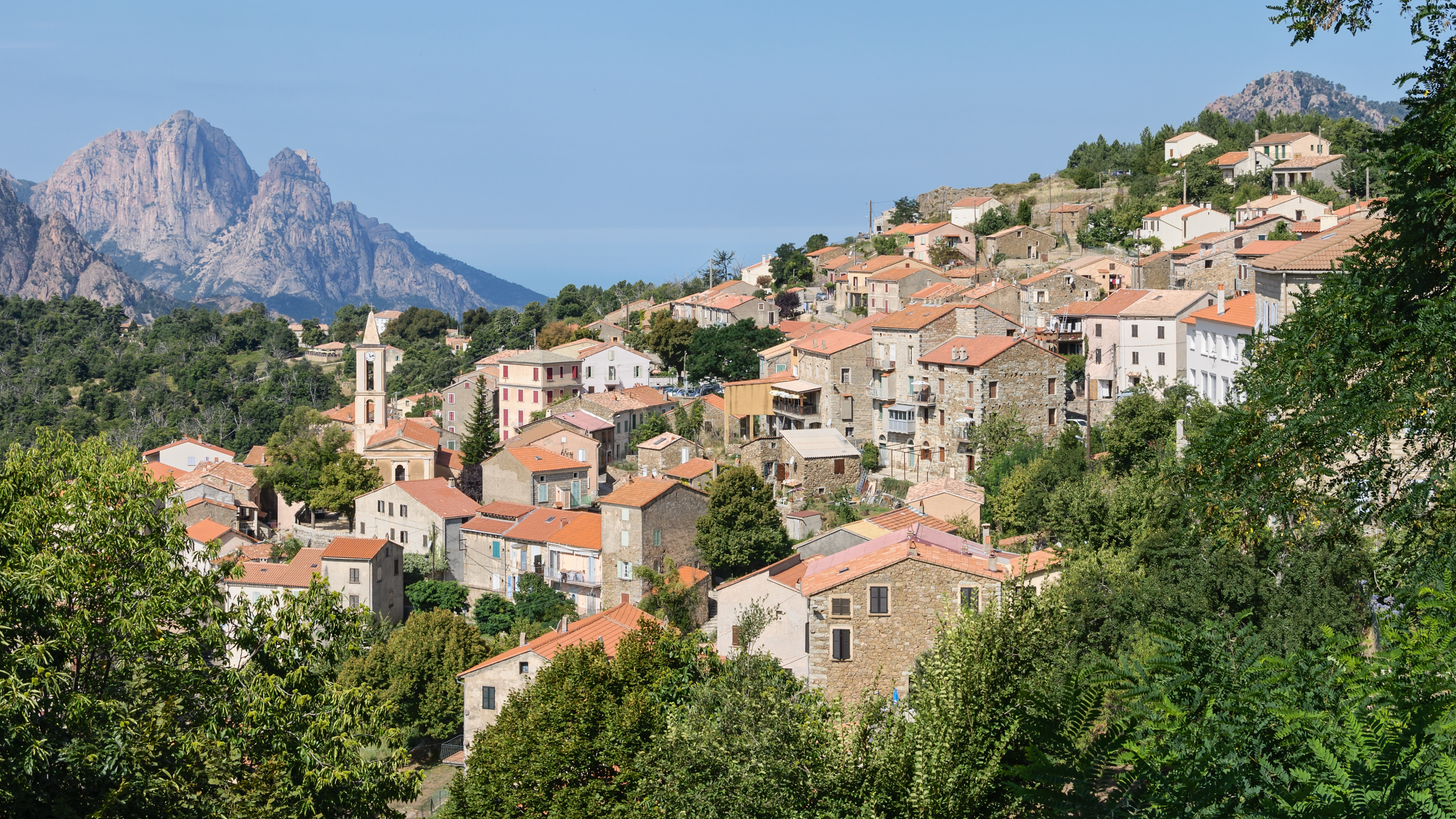 Évisa, Southern Corsica, France. In the left background, Capu d'Ortu e Tre Signore. Corsu: Evisa, Corsica suttana